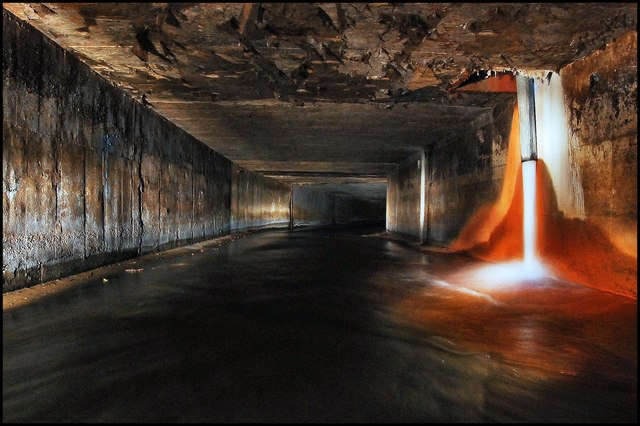 Underground Bradford-The hidden course of the Bradford beck The Bradford beck runs underground, just higher up from the old Odeon cinema, It twists and turns under Centenary Square before emerging near to Valley Parade football ground. Unusually for a major city, Bradford is not built on any substantial body of water. The ford from which it takes its name 'Broad-Ford' was a crossing of the stream called Bradford Beck. The beck rises in the Pennine hills to the west of the city, and is swelled by tributaries such as Horton Beck, Westbrook, Bowling Beck and Eastbrook. At the site of the original ford, just below the present Bradford Cathedral, it turns north, and flows more or less straight towards the River Aire at Shipley. The beck's course through the city centre is entirely underground and was mostly so by the middle of the 19th century. For more pictures